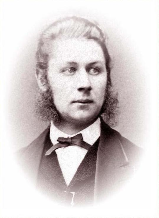 P. Albert Andersson (1847-1881), son of Anna Katrina Andersdotter, as released by image owner FamSACPlace: West Aros, Sweden